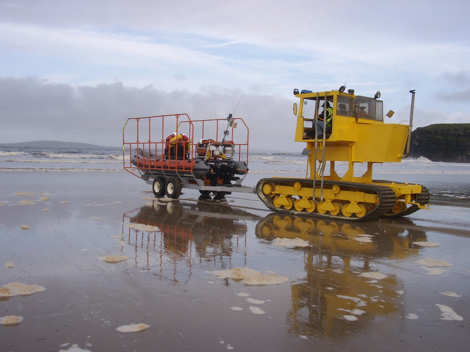 Ballybunion Atlantic 21 RIB being launched into surf from the beach. The trailer is custom made and can accomadate a net recovery, and the towing vehicle is a modified buldozer capable of entering water to a depth of 10 feet.